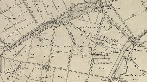 An Ordnance survey map of Borough Fen from 1856